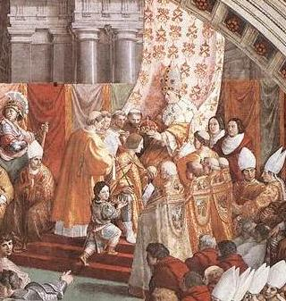 The Coronation of Charlemagne by Rafael, 1516-1517. Charlemagne was crowned by Leo III in AD 800 in the Vatican Basilica ==